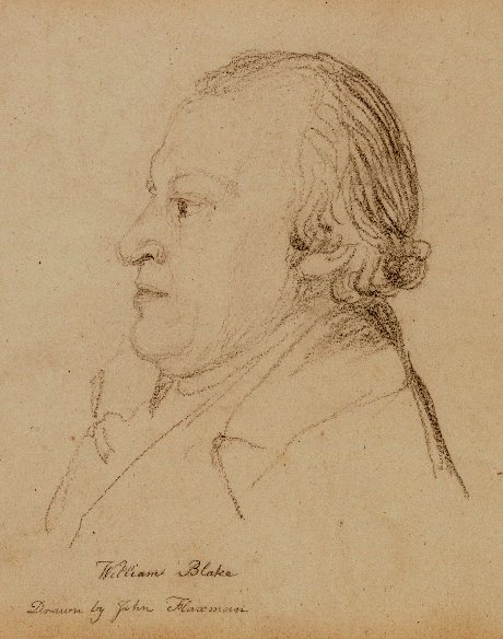 William Blake by John Flaxman c1804